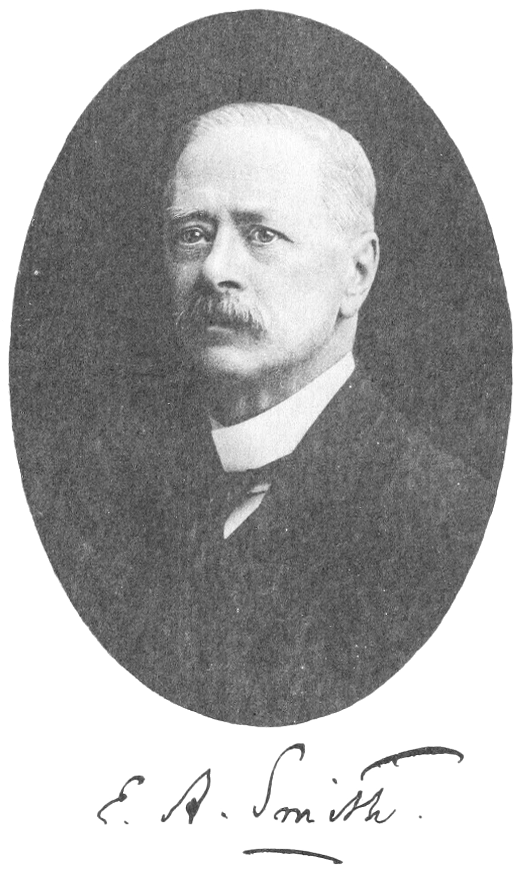 Portrait of British zoologist Edgar Albert Smith.